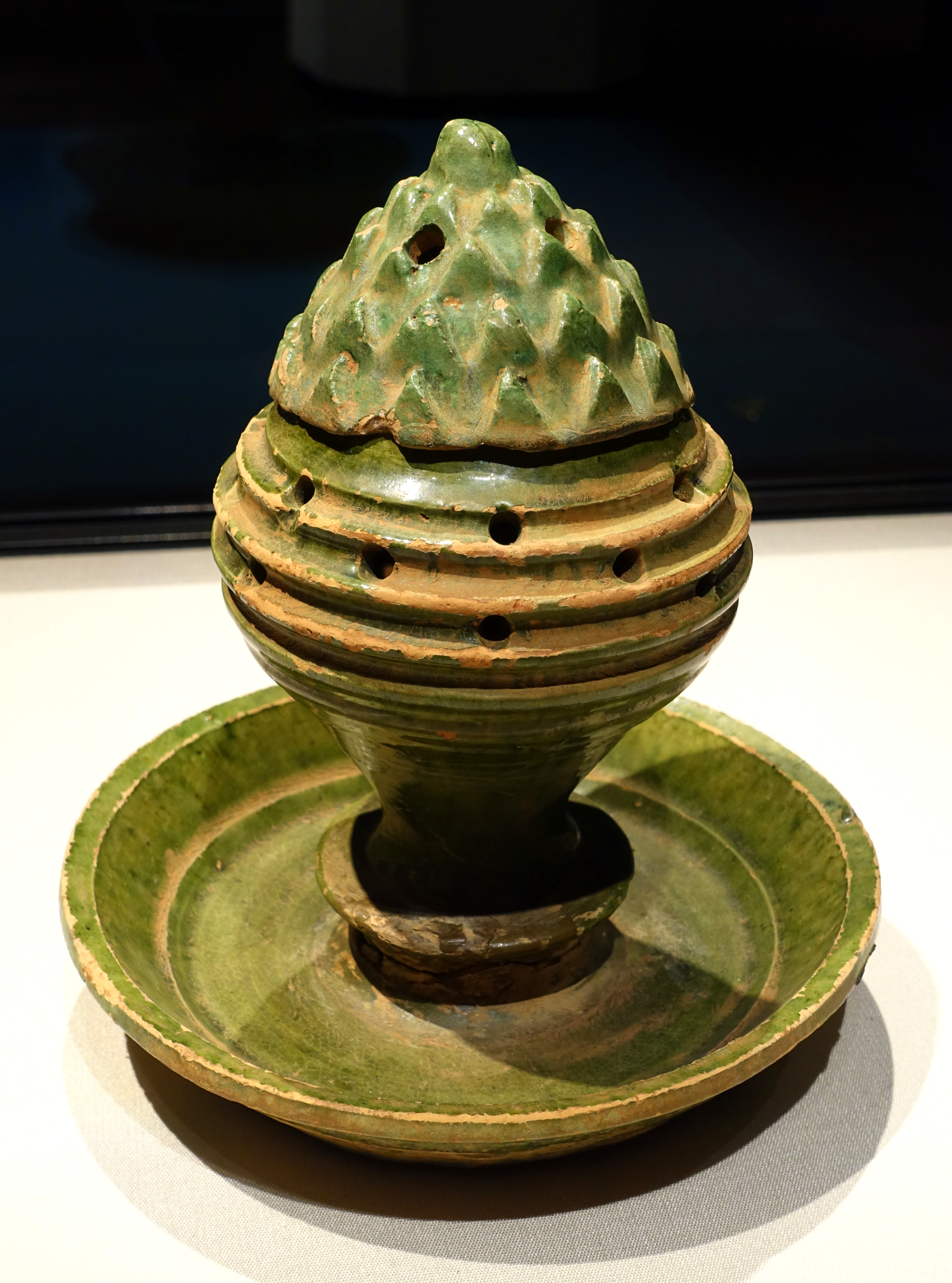 Exhibit in the Tokyo National Museum - Tokyo, Japan.